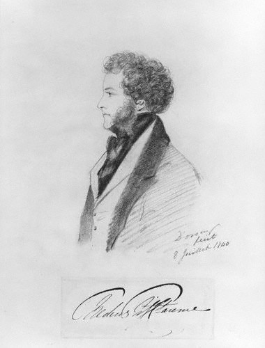 Lord Frederick FitzClarence (1799-1854)